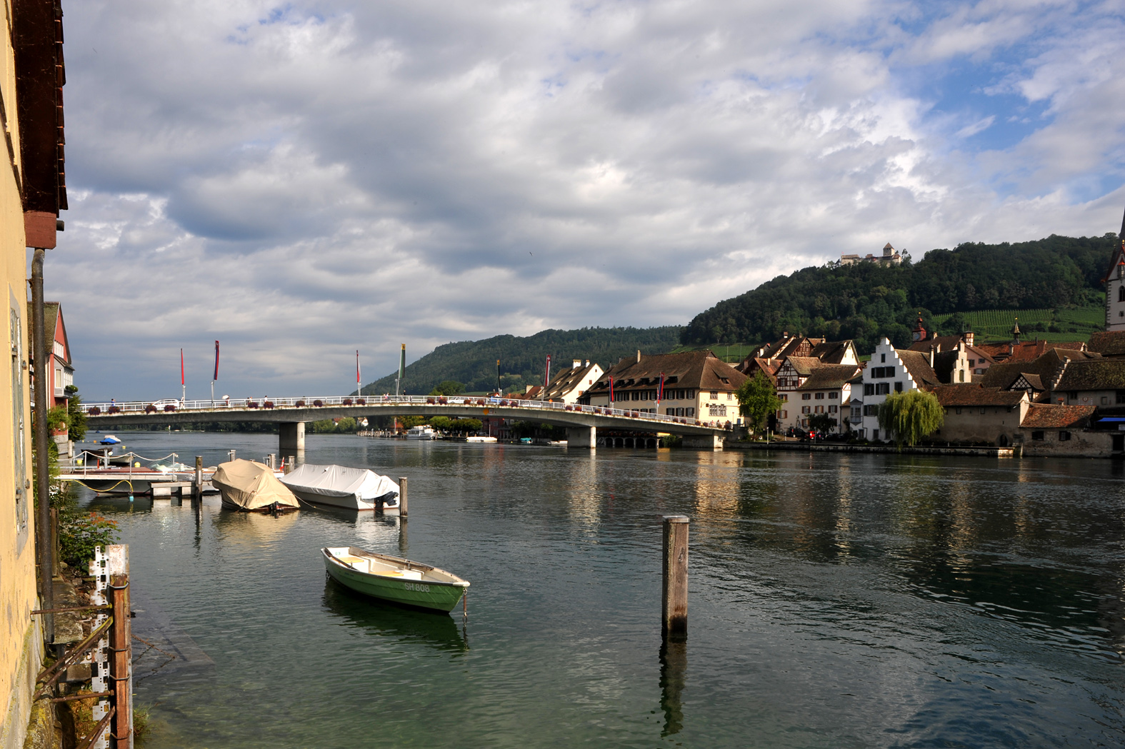 Road bridge over river Rhine in Stein am Rhein; Schaffhausen, Switzerland. In the background castle Hohenklingen.